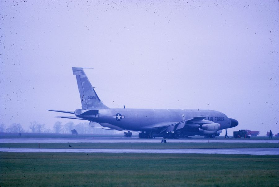 pictionid72692736 - catalog07.01.b-00831 - titleboeing rc-135d reads mildenhall70.-- - filename07.01.b-00831.jpg-00080.jpg-Image scanned from a 35mm Slide--Please tag this photo so that the data can be stored with our Digital Asset Management System. -Repository: San Diego Air and Space Museum Archive-00080.jpg-Image scanned from a 35mm Slide--Please tag this photo so that the data can be stored with our Digital Asset Management System. -Repository: San Diego Air and Space Museum Archive